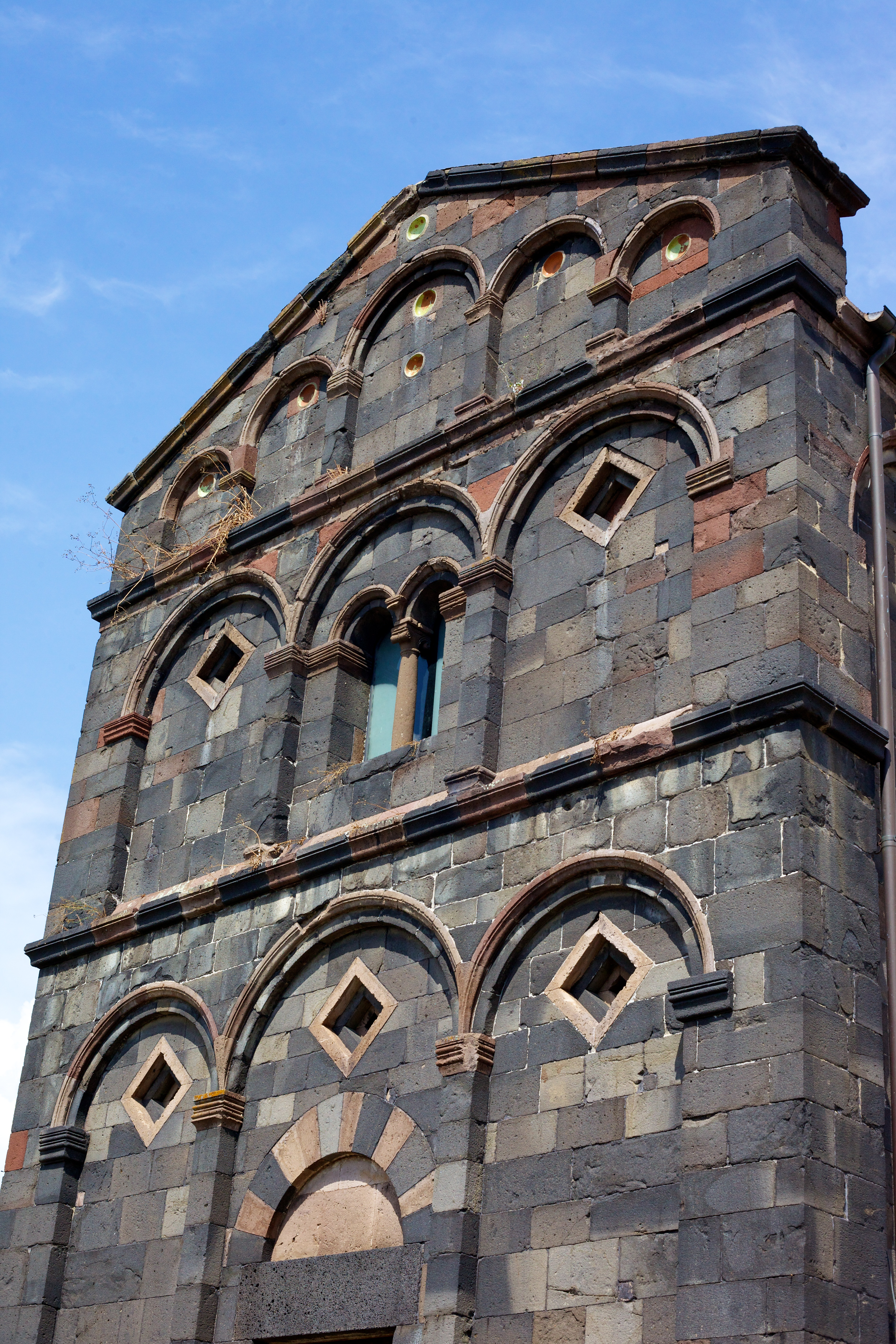 This is a photo of a monument which is part of cultural heritage of Italy.